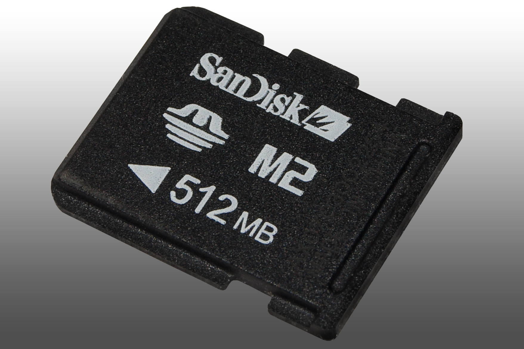 SanDisk 512MB Memory Stick Micro M2 Memory Card